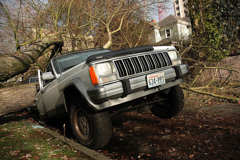 Damage in Seattle after the Hanukkah Eve Wind Storm of 2006. Item 158605, SDOT Transportation Projects Digital Photographs (Record Series 8100-01), Seattle Municipal Archives.